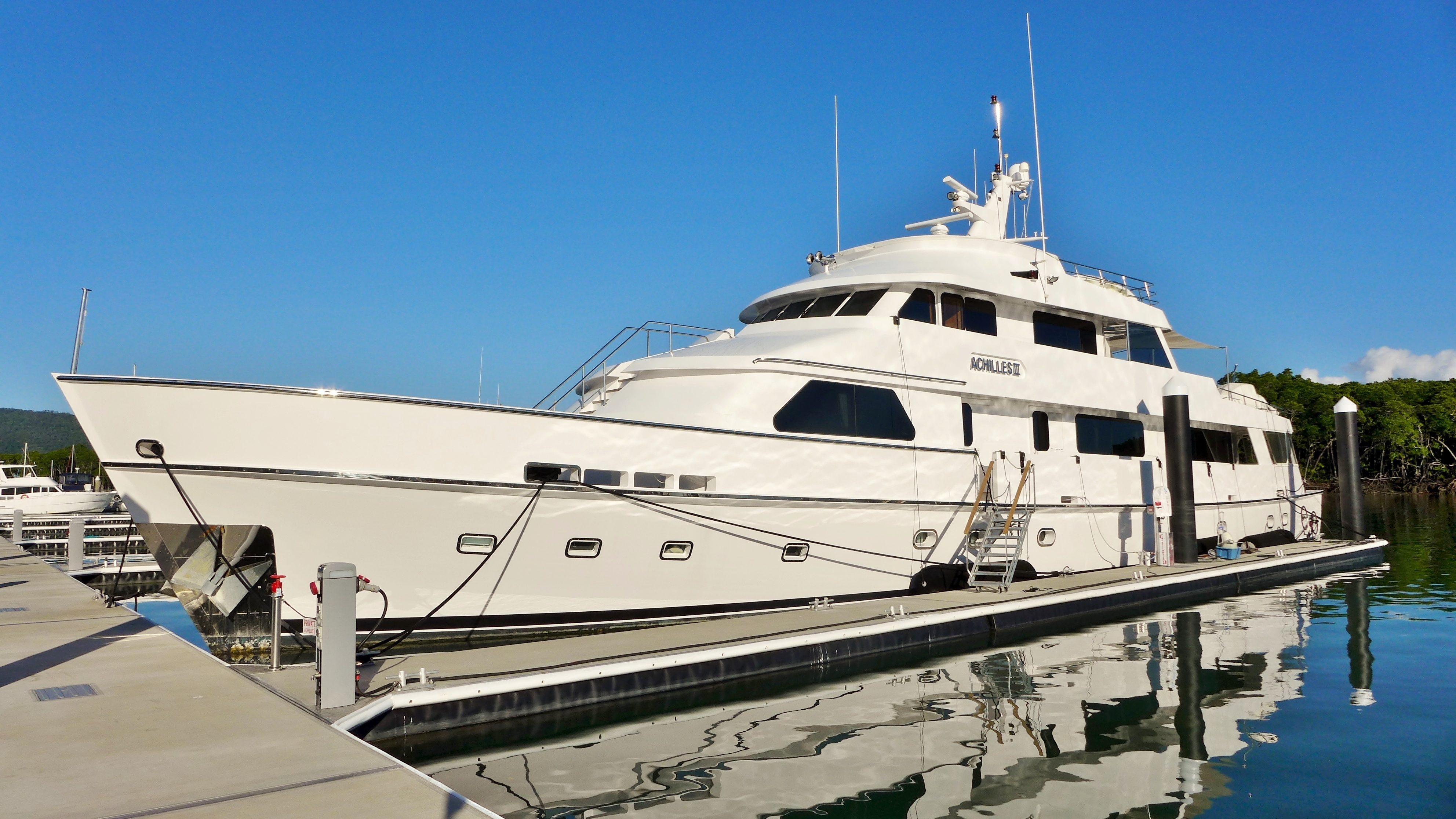 View of motor yacht Achilles III (ex-HMS Neasham (M2712), ex-HMAS Porpoise (DTV 1002/Y.280)), berthed at The Reef Marina, Port Douglas, Far North Queensland, Australia.